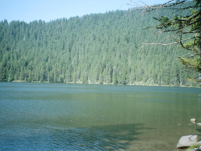 Černé jezero (Black Lake) in Bohemian Forest. Licence: Self_GFDL_and_cc-by-sa-2.5